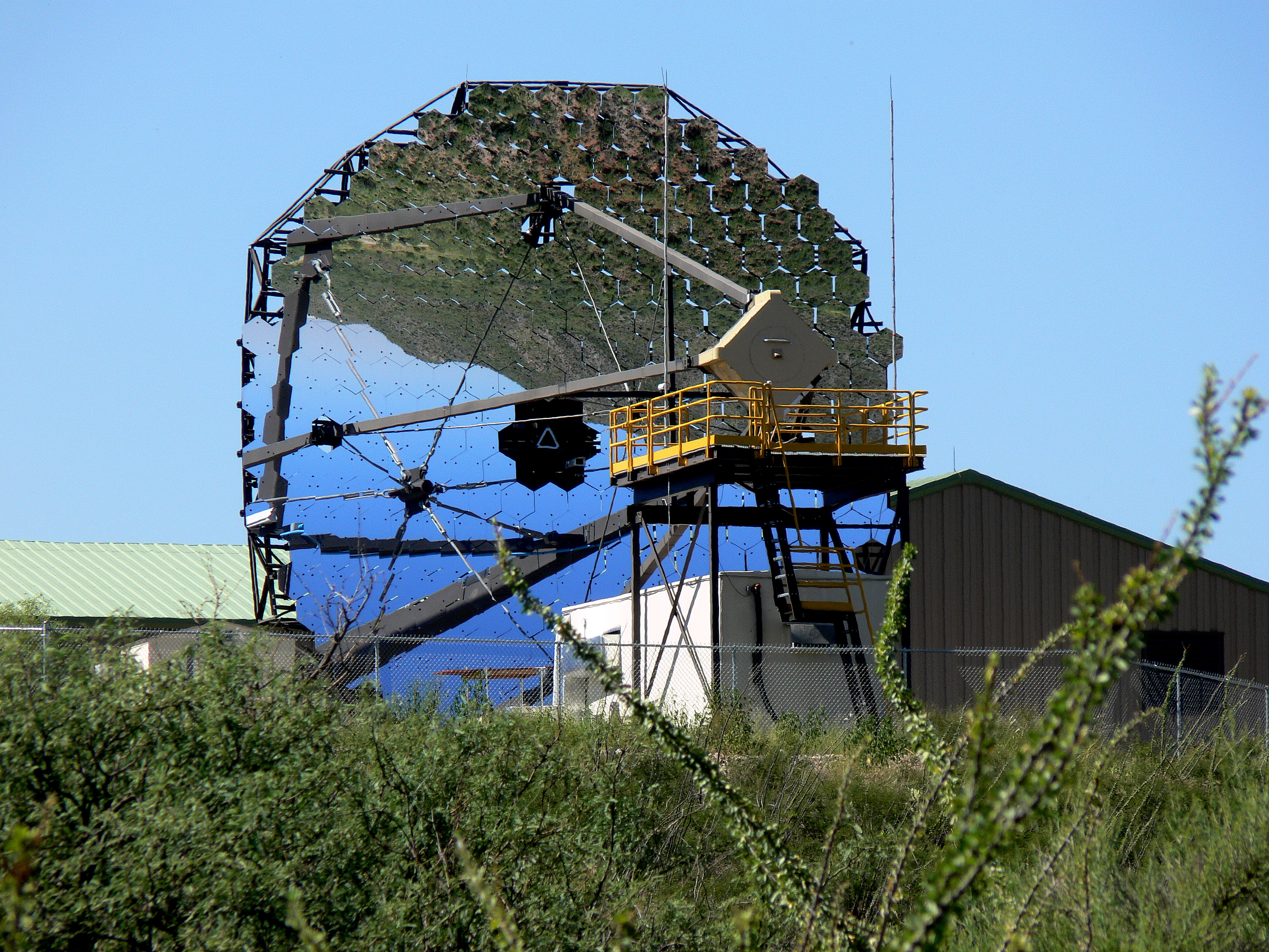 One of the three multiple-mirror telescopes that FLWO (near Amado, Arizona) has